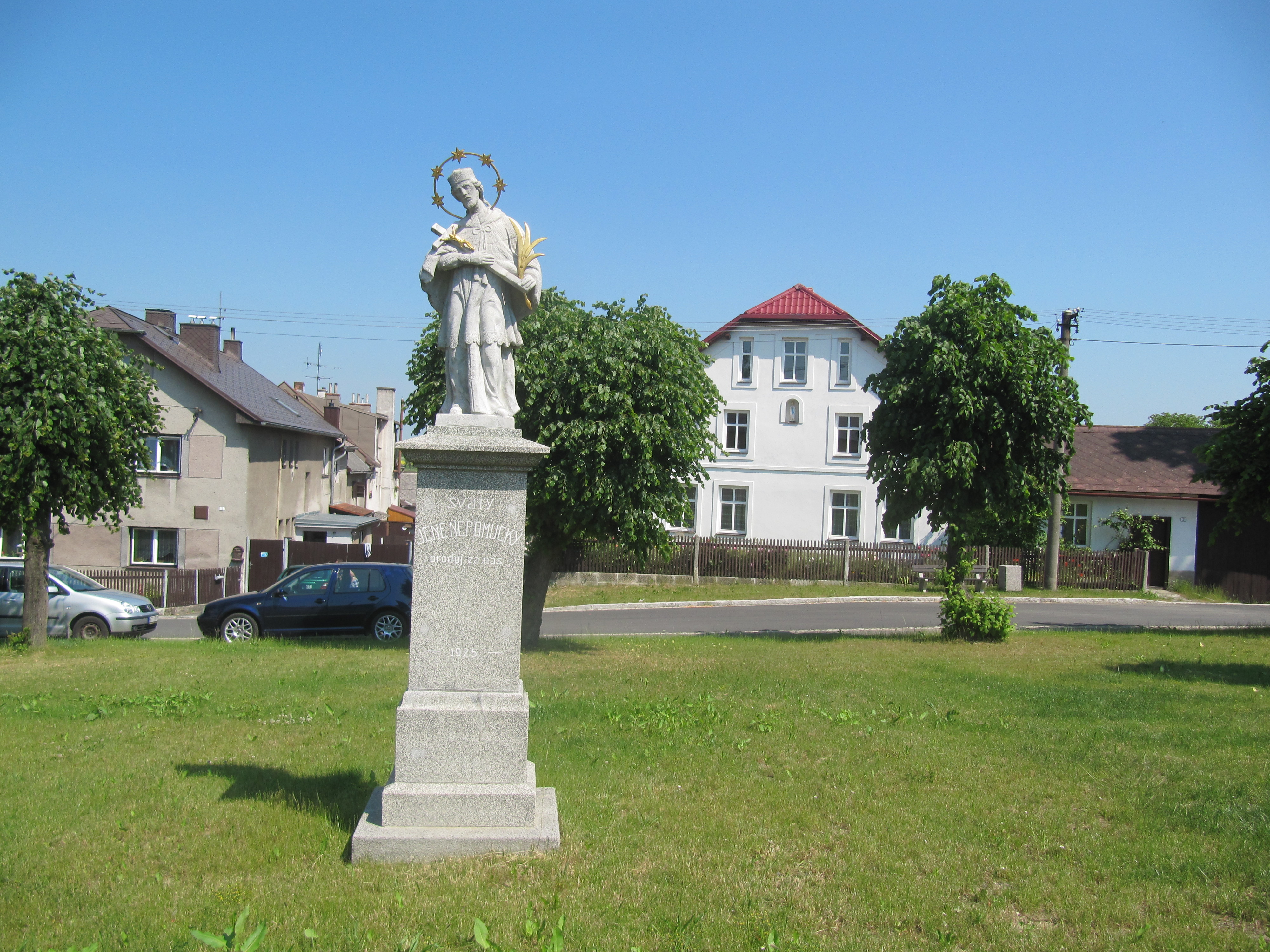 Březová, Opava District, Czech Republic.